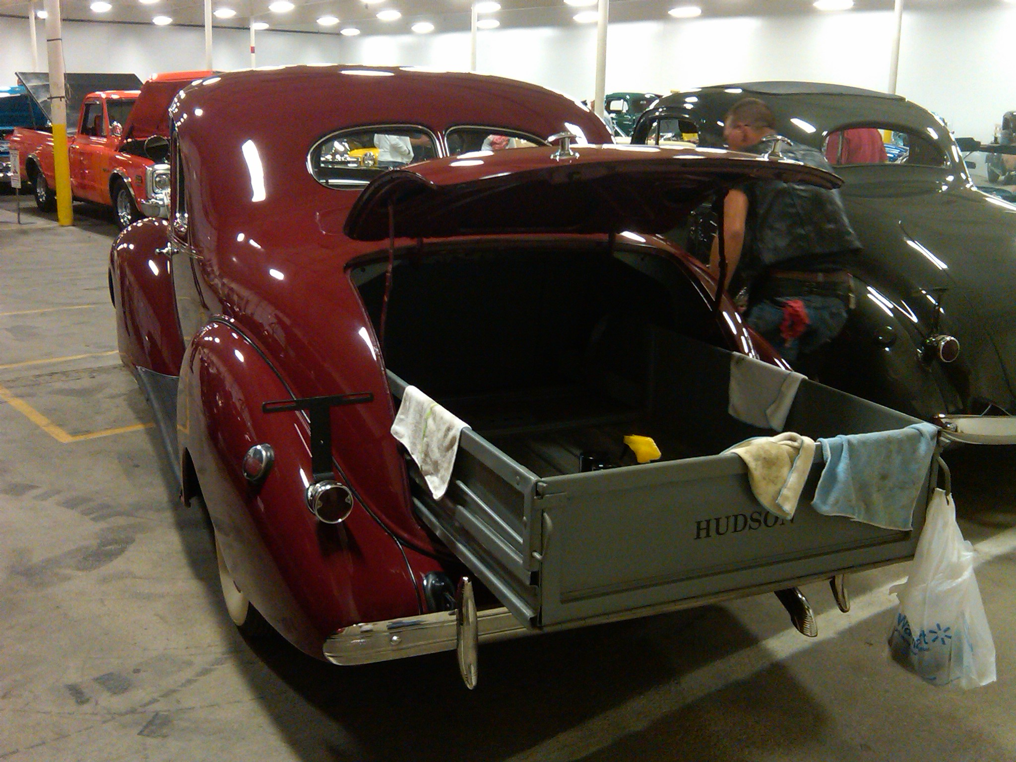 Hudson Utility Coupe picture taken at a local car show in Colonial Heights, VA